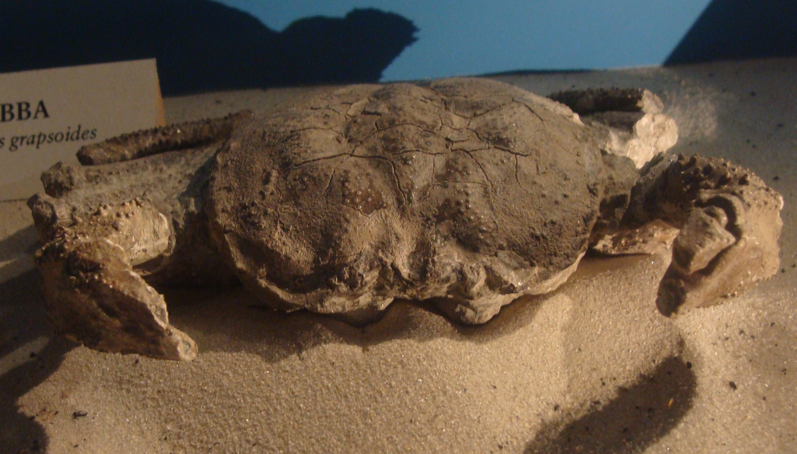 Avitelmessus grapsoides in the Naturhistoriska Riksmuseet, Stockholm, Sweden.